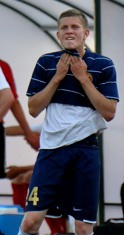 Oleksiy Zozulia, Ukrainian footballer, during the game for FC Metalurh Zaporizhya reserves